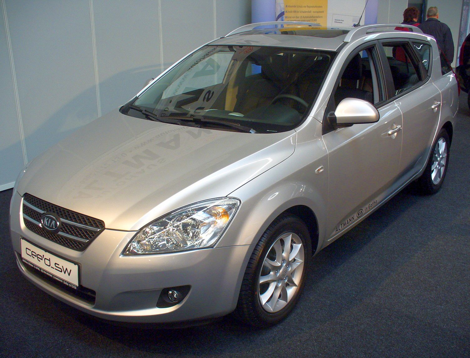 Kia cee'd SW